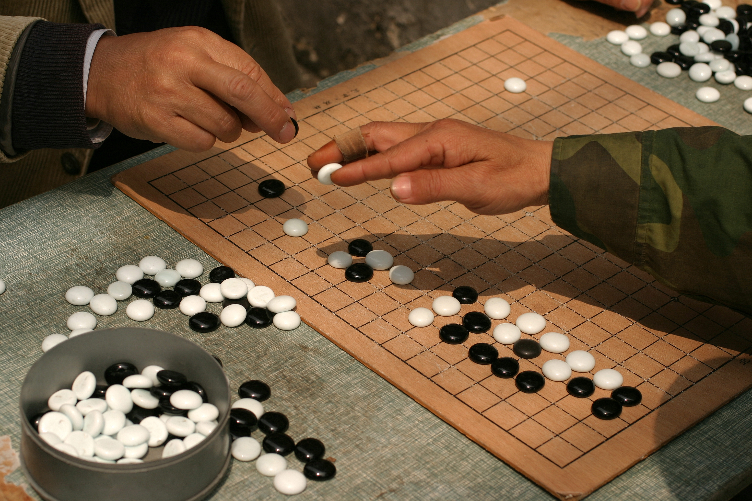 Playing Go (aka Weiqi) in Shangha, China with the flat-sided yunzi style of stones.